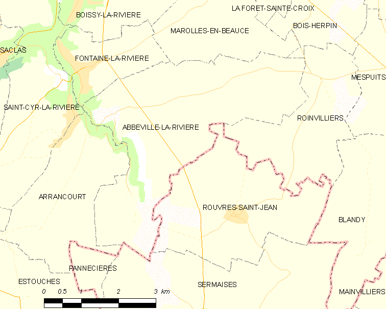 Map of French municipality Abbéville-la-Rivière